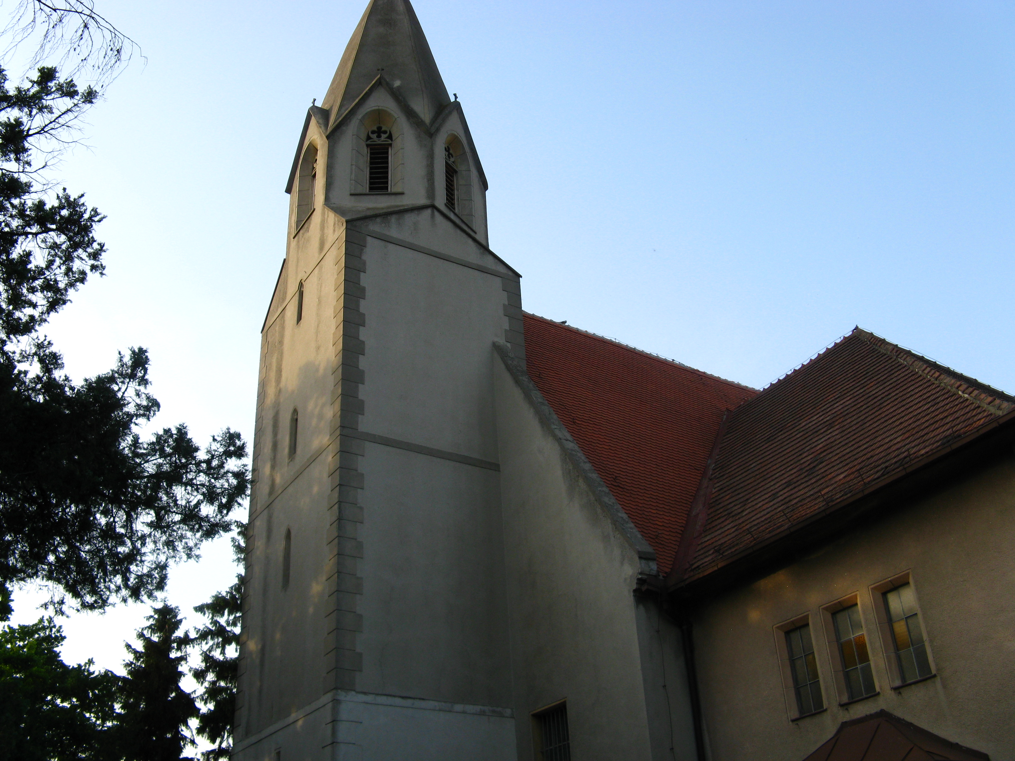 church of sv. Mikuláš, Bratislava - Podunajské Biskupice